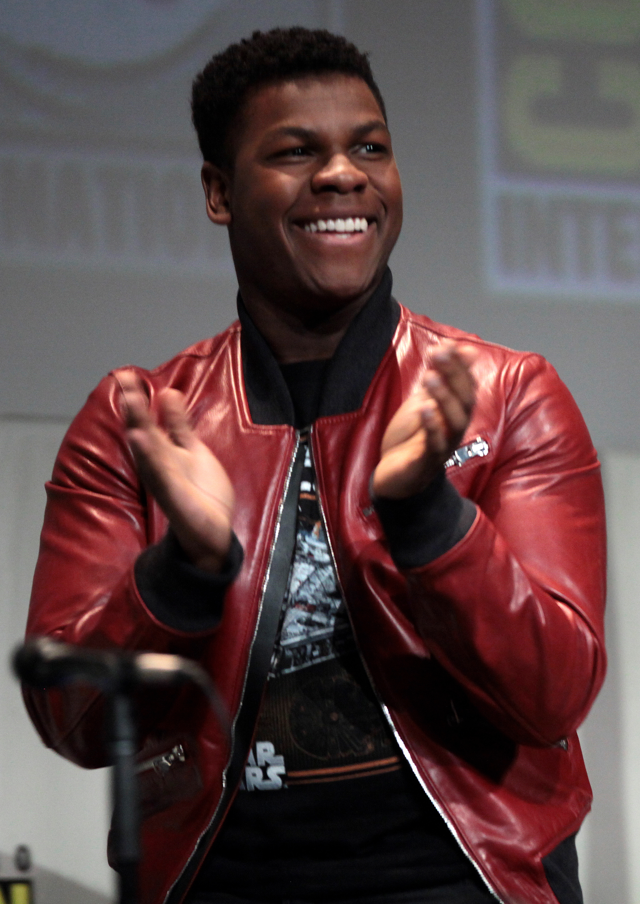 John Boyega at the 2015 San Diego Comic Con International in San Diego, California.